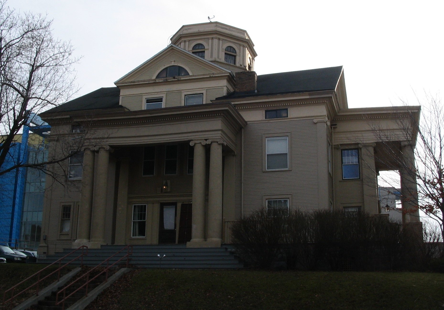 This is an image of the Pi Chapter House of Psi Upsilon Fraternity that my friend took with his digital camera. This building is located on Syracuse University.